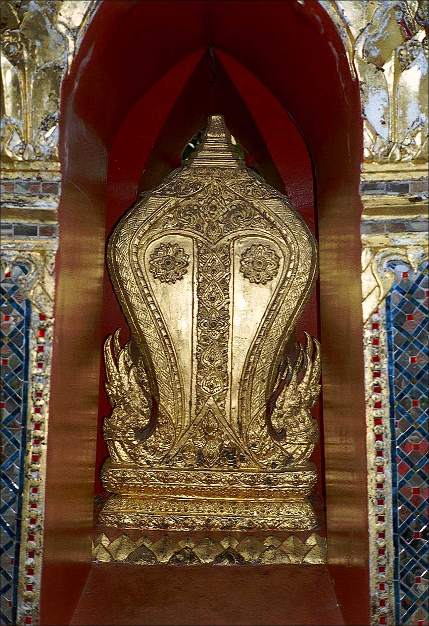 Bai Sema (sacred boundary stones) "with eyes", Wat Phra Kaeo, Bangkok, own photo June 2002 (de: Bai Sema (Grenzsteine) im Wat Phra Kaeo, Bangkok)